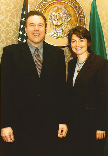 Cathy McMorris Rodgers with Senator Luke Esser